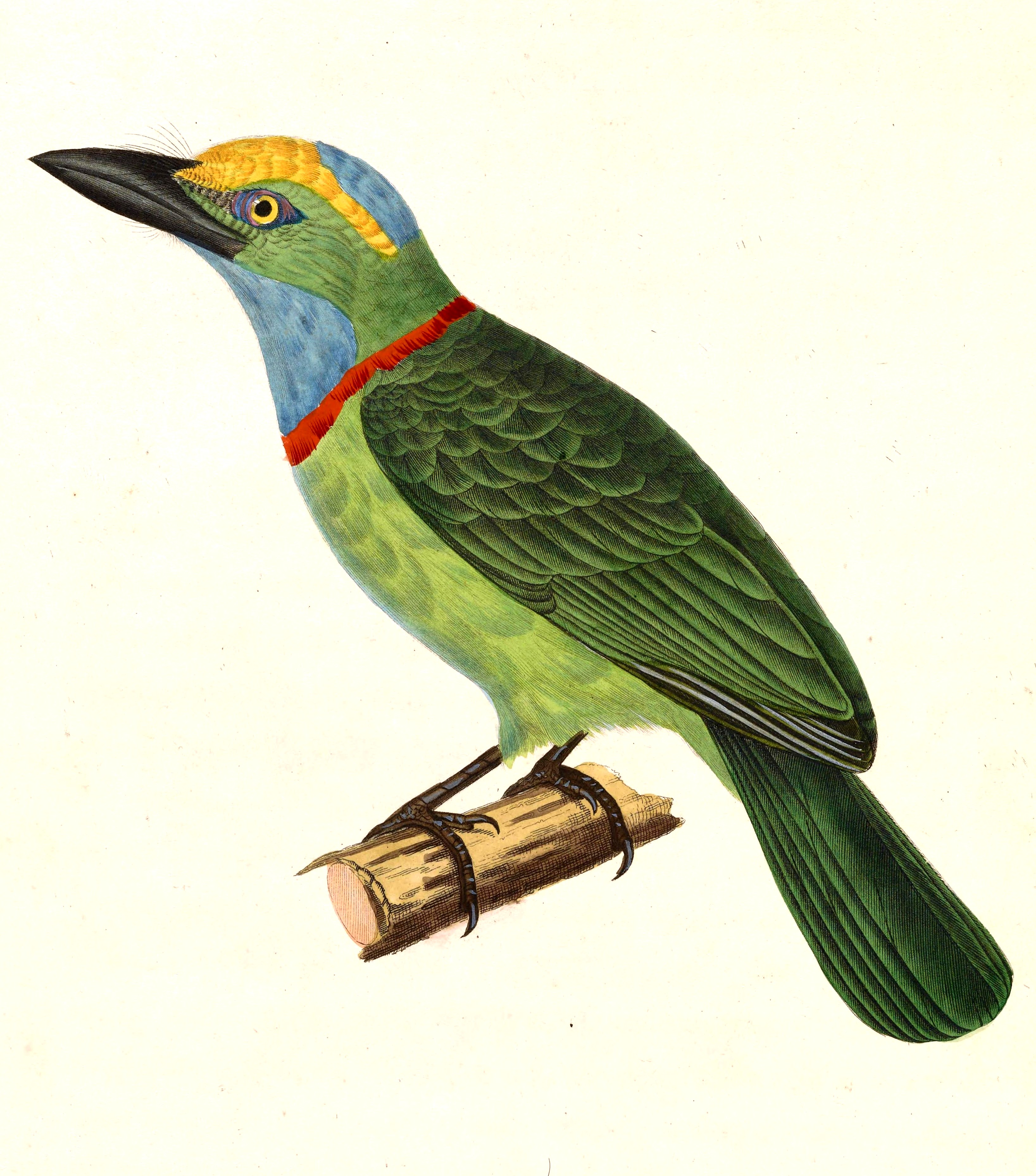 « Bucco henricii » = Megalaima henricii (Yellow-crowned Barbet) - adult